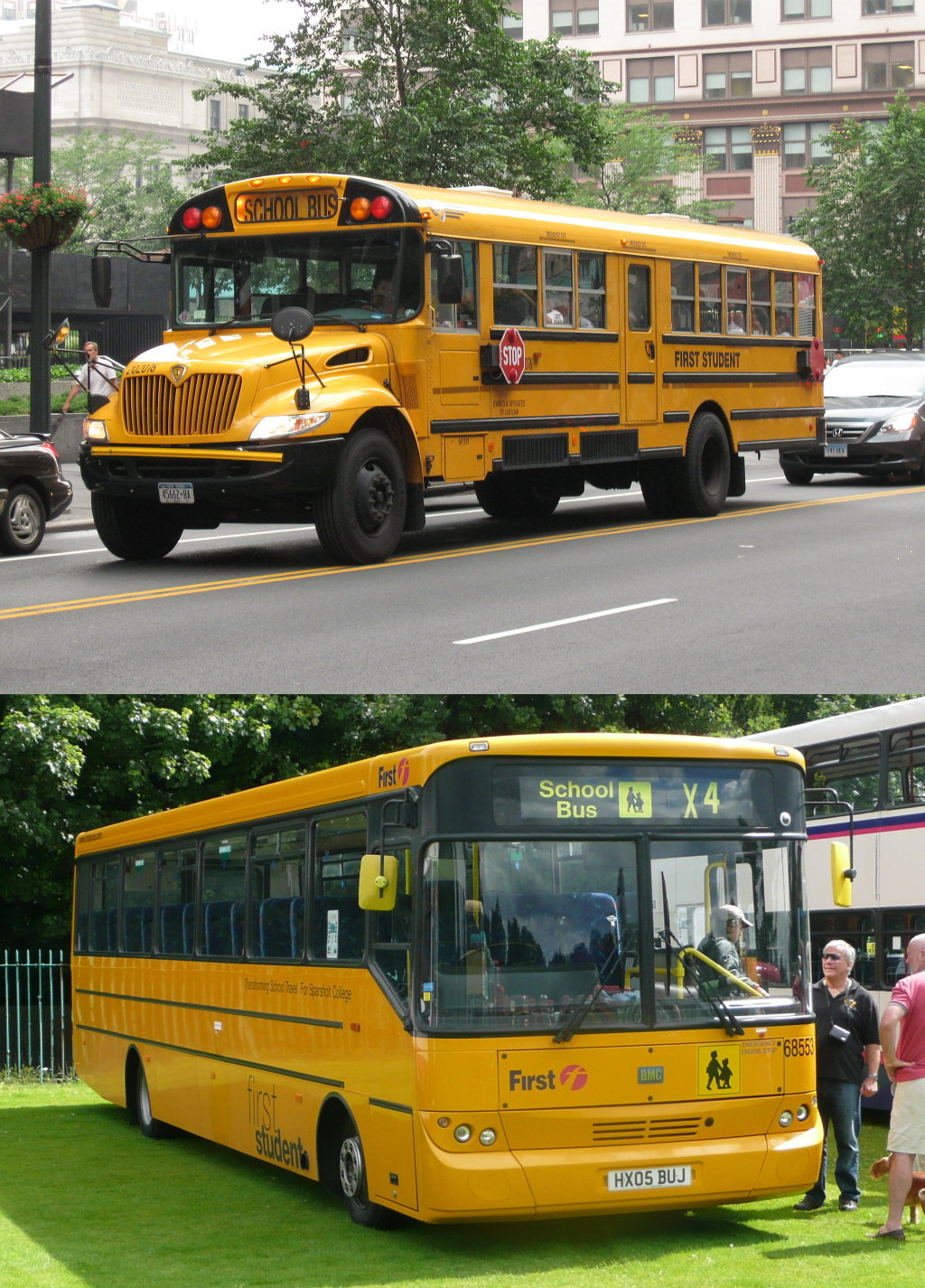 First Student #202076 in New York City on 34th Street.